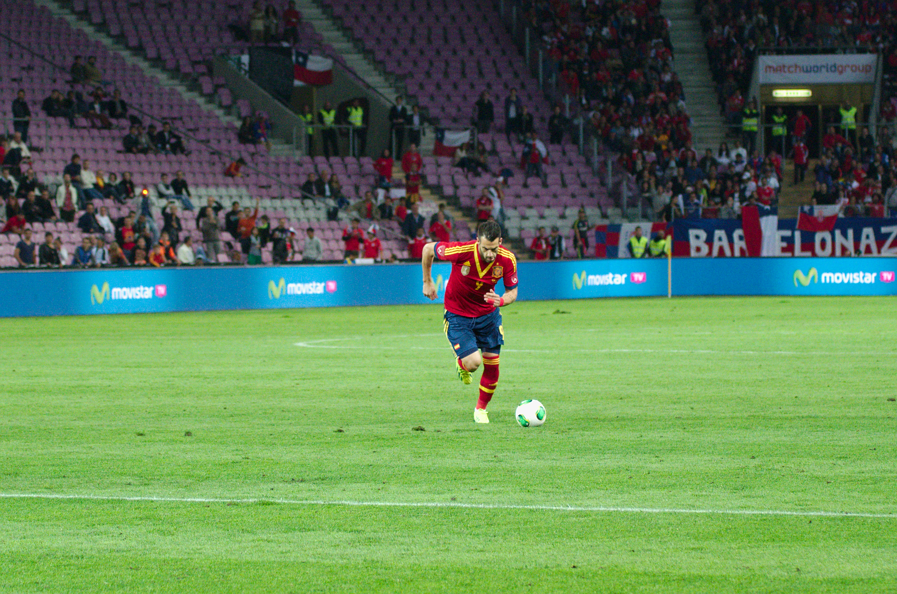 Spain - Chile - 10-09-2013 - Geneva - Alvaro Negredo